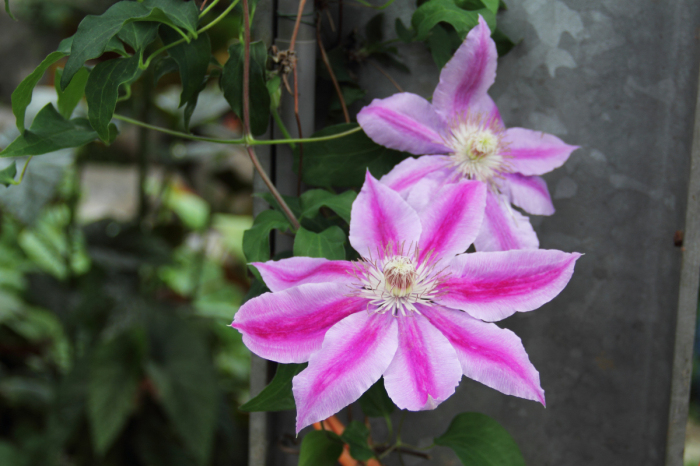 I grow papery leaflet blades that are narrowly ovate to lanceolate, about 1-6cm long and 0.4 to 2 cm wide. I have many modes of reproduction like seeding, layering, division and division